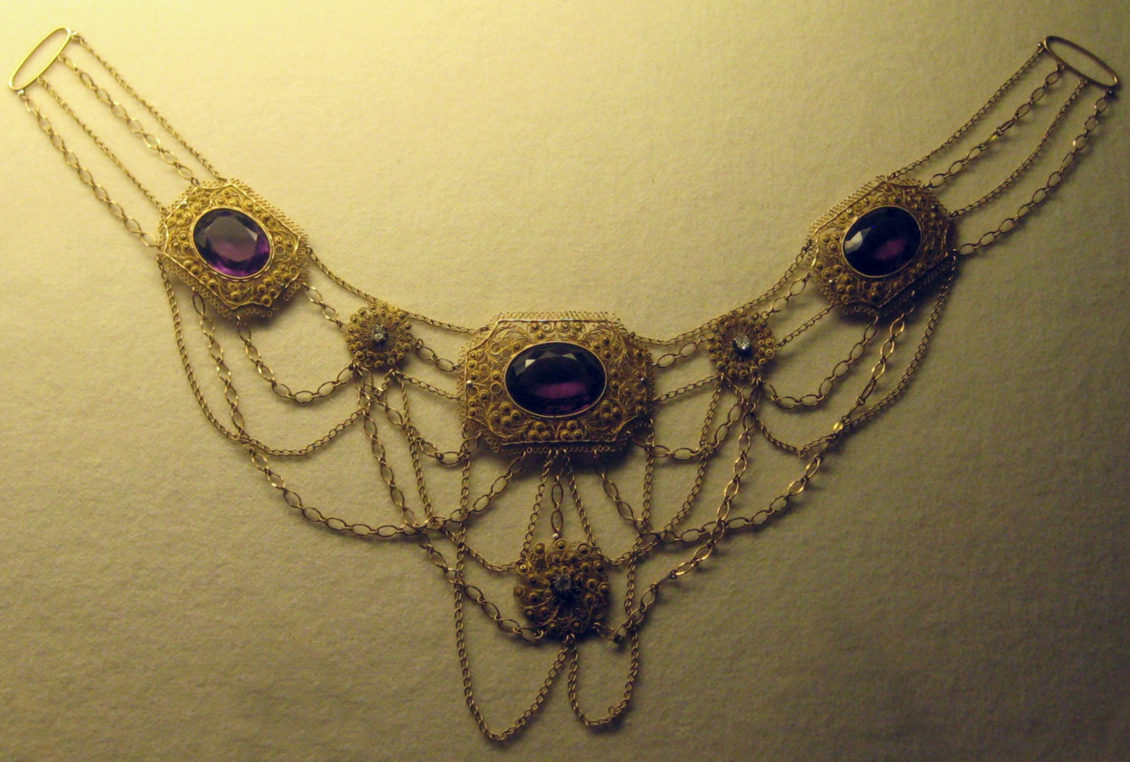 Necklace, Venice, 1st half 19 c.